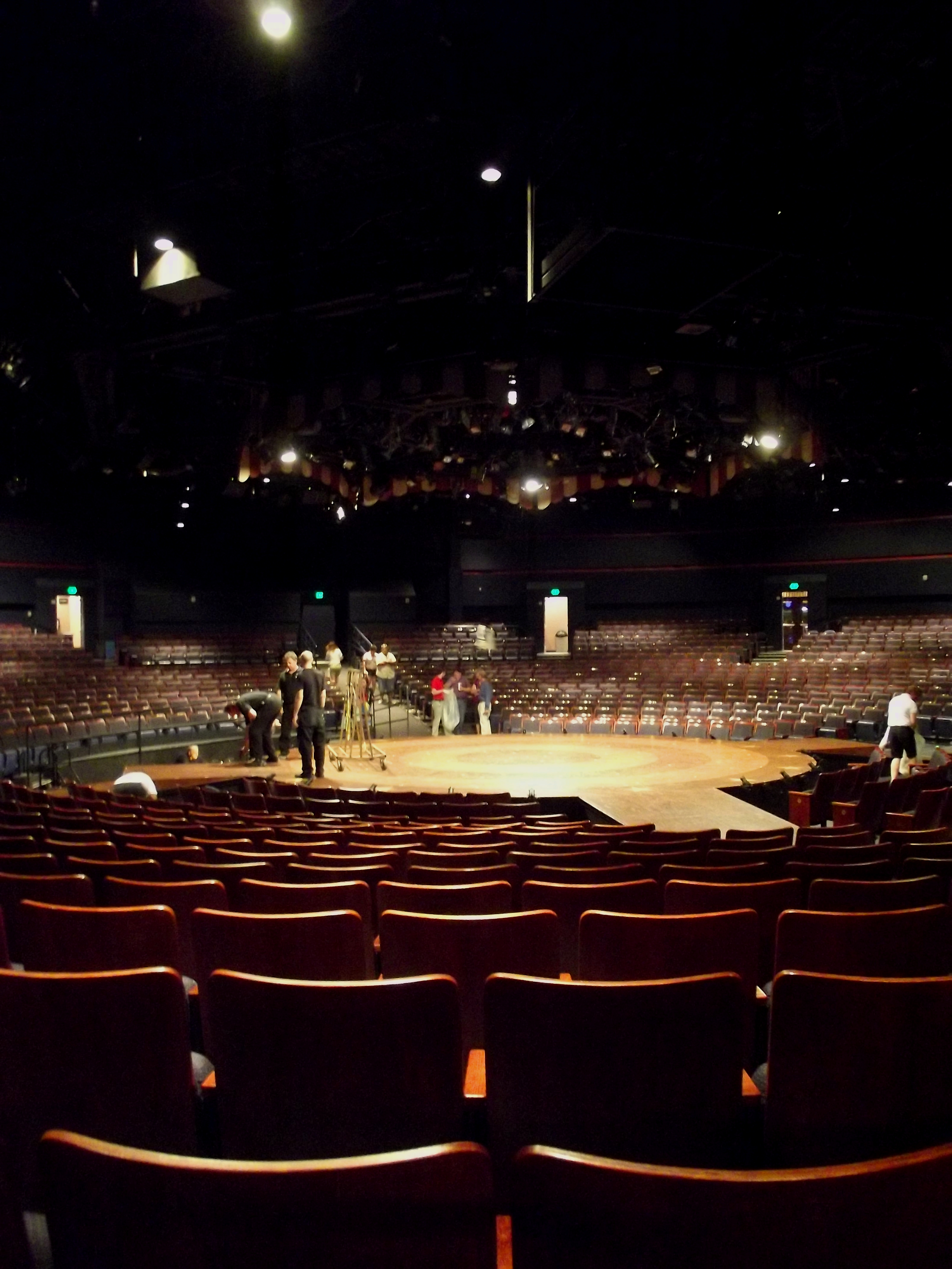 Inside the Wells Fargo Pavilion. View of the Music Circus stage cleared of all preset set pieces as tech crews work to finish for preview of "Annie Get Your Gun".